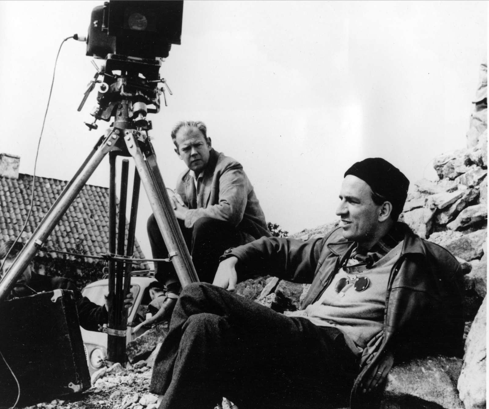 Ingmar Bergman (1918–2007), Swedish stage and film director, and Sven Nykvist (1922–2006), cinematographer. Photo: During the principal cinematography of Through a Glass Darkly (Såsom i en spegel), 1961, at Fårö island. Svensk Filmindustri (SF) press (publicity) photo. Photographer unknown. Source: Svenska filminstitutet.